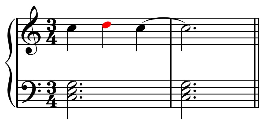 Upper neighbor tone.